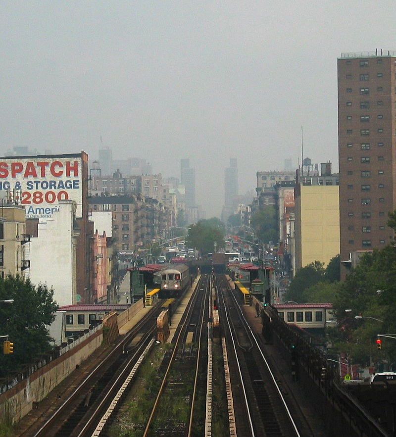 Elevated Subway Track at Harlem/Morningside Heights. 125th Street Station.